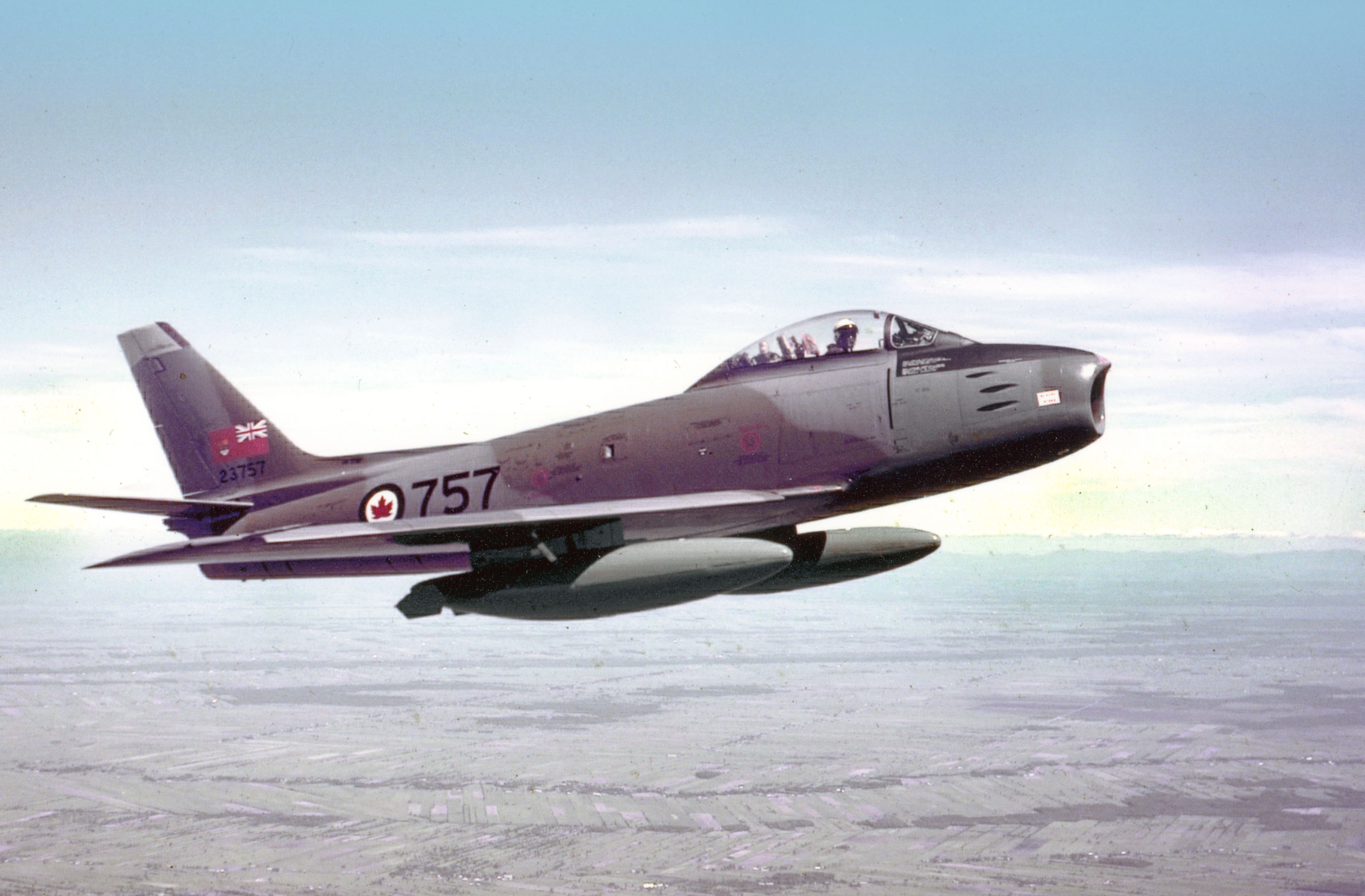 Sabre 23757 was one of 390 Canadair CL-13B Sabre Mk 6 that served with the RCAF. This Sabre is carrying the camouflage developed for all RCAF European-based operational aircraft. The photo was taken while the aircraft belonged to No. 1 Overseas Ferry Unit (OFU) based at St. Hubert, Quebec, which was formed in 1953 to ferry Sabres and T-33s across the North Atlantic.